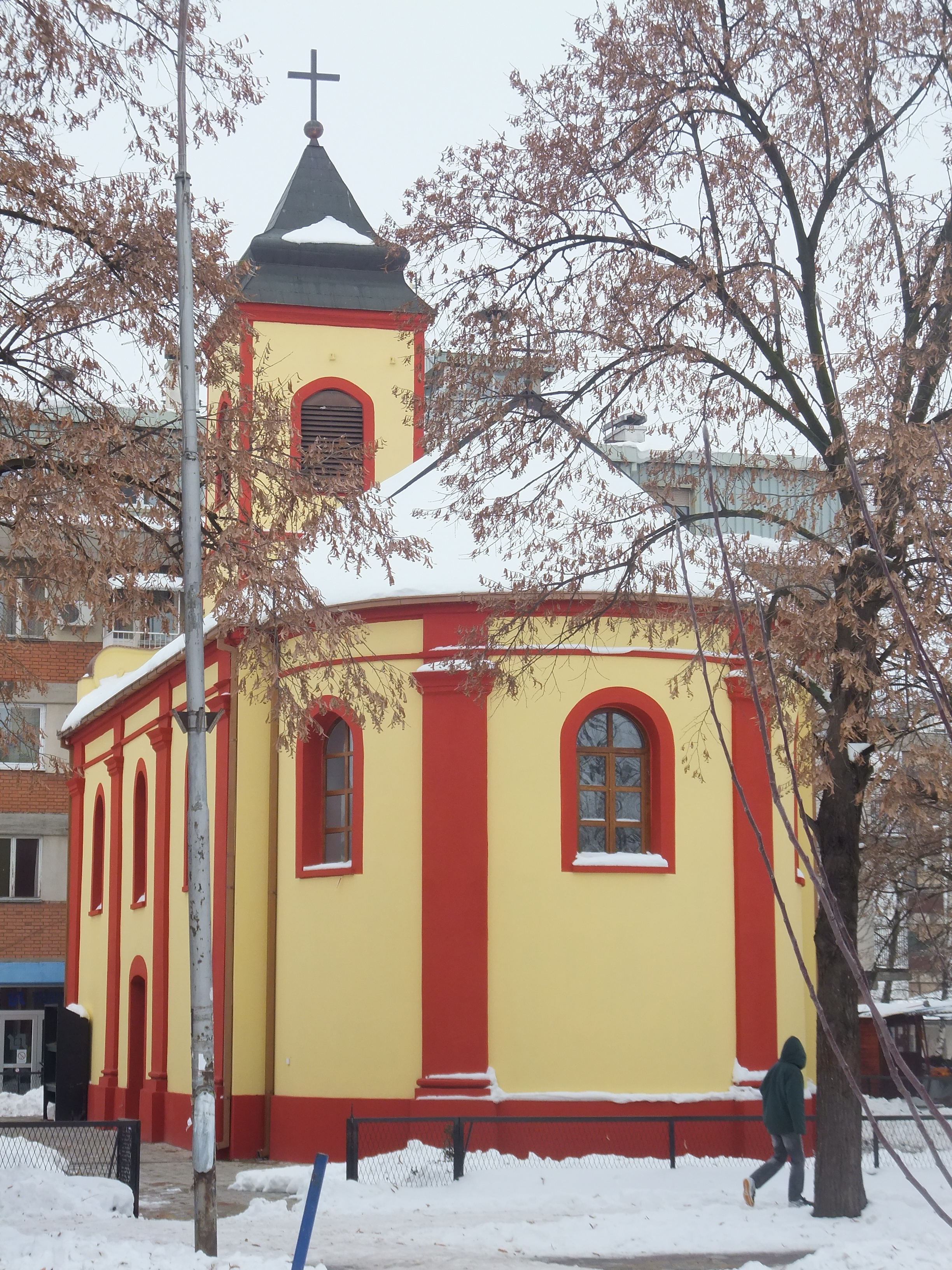 Church of Michael and Gabriel in Pećinci